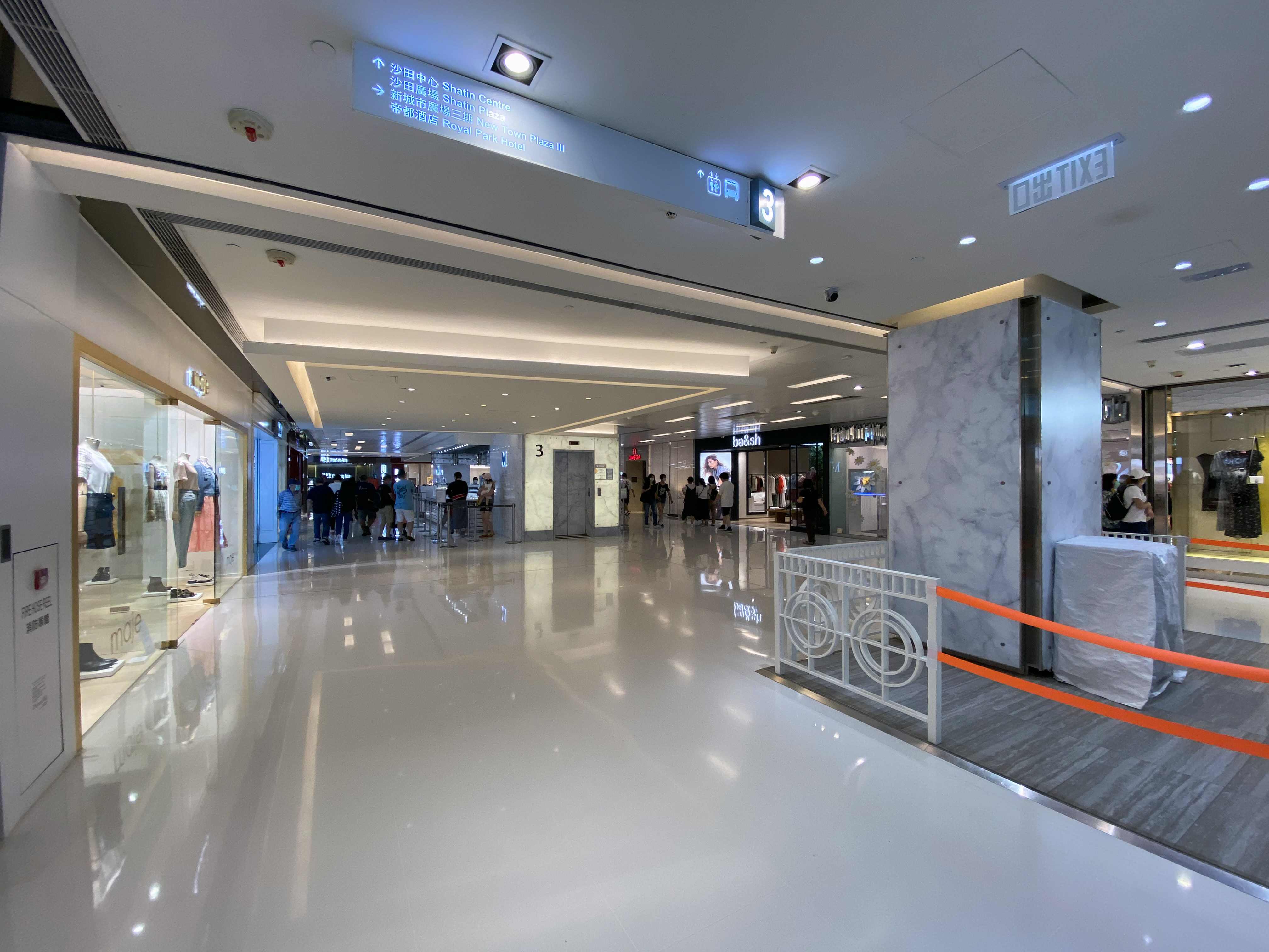 New Town Plaza L3 east